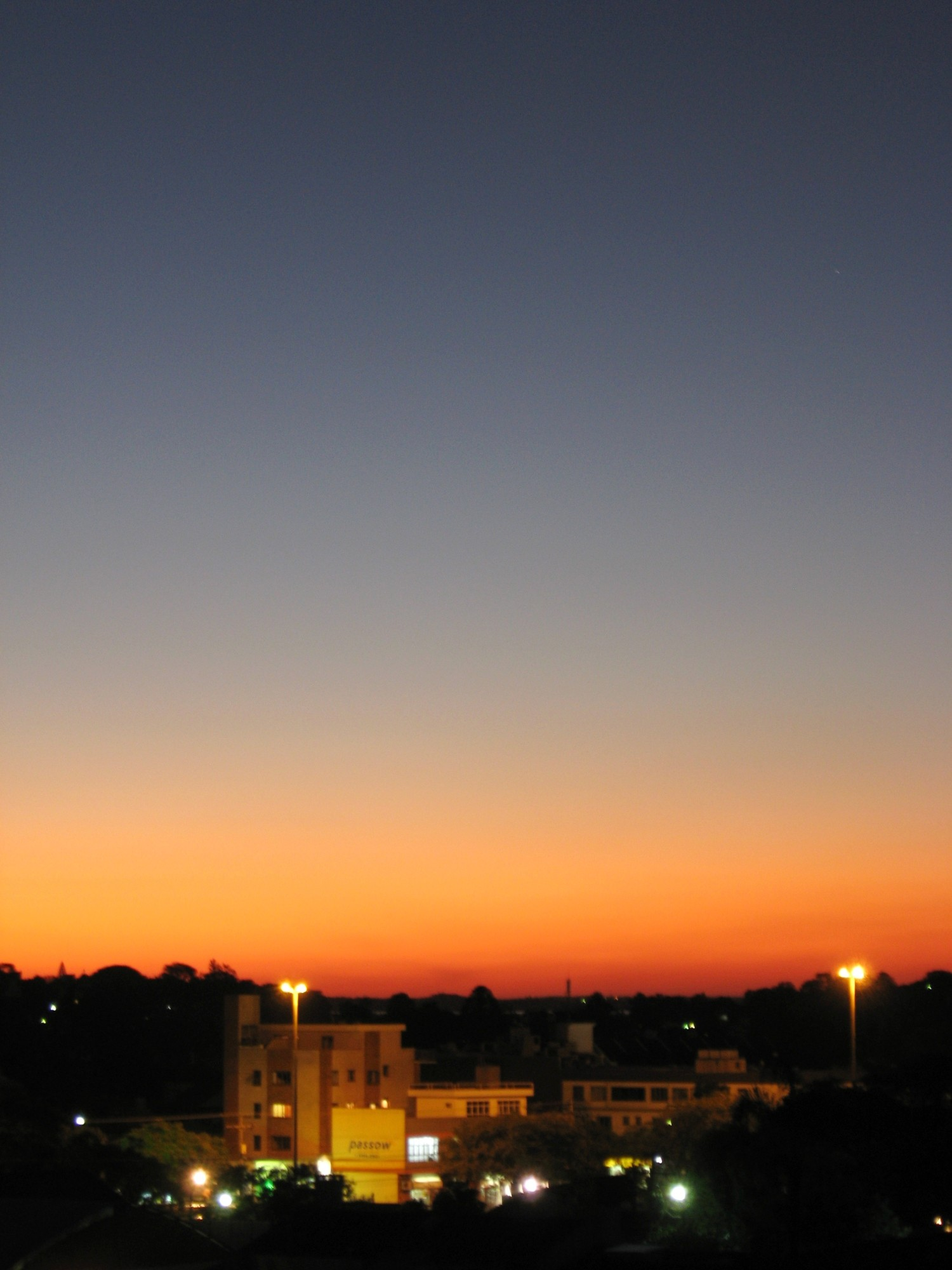 View of Tristeza neighborhood after the sunset, in Porto Alegre (Brazil).